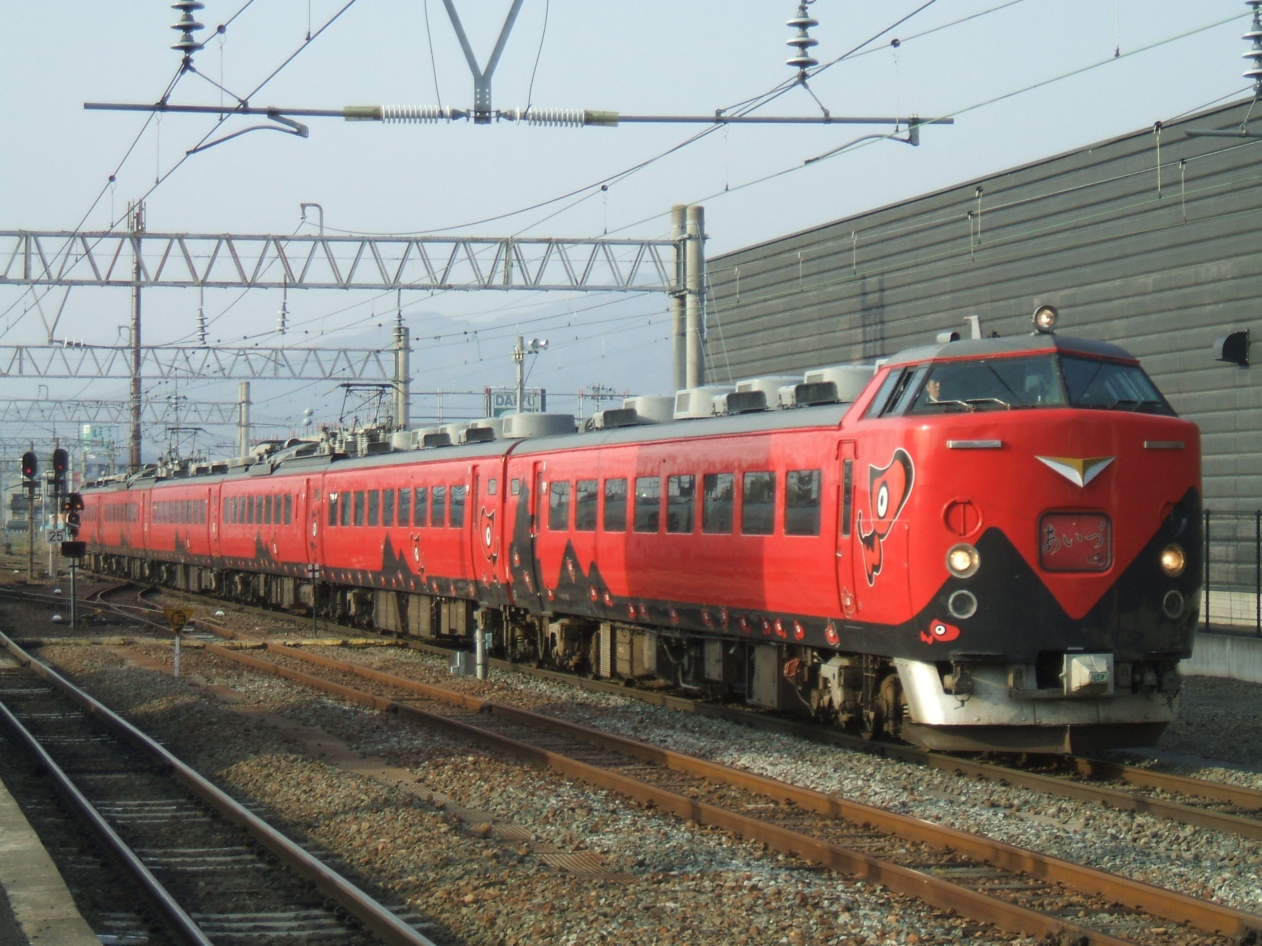 JR East 485 series EMU on an "Aizu-Liner" rapid service at Aizu-Wakamatsu Station